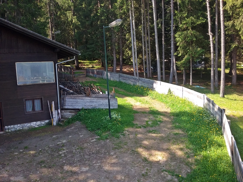 Toboggan run Panorama - Destination